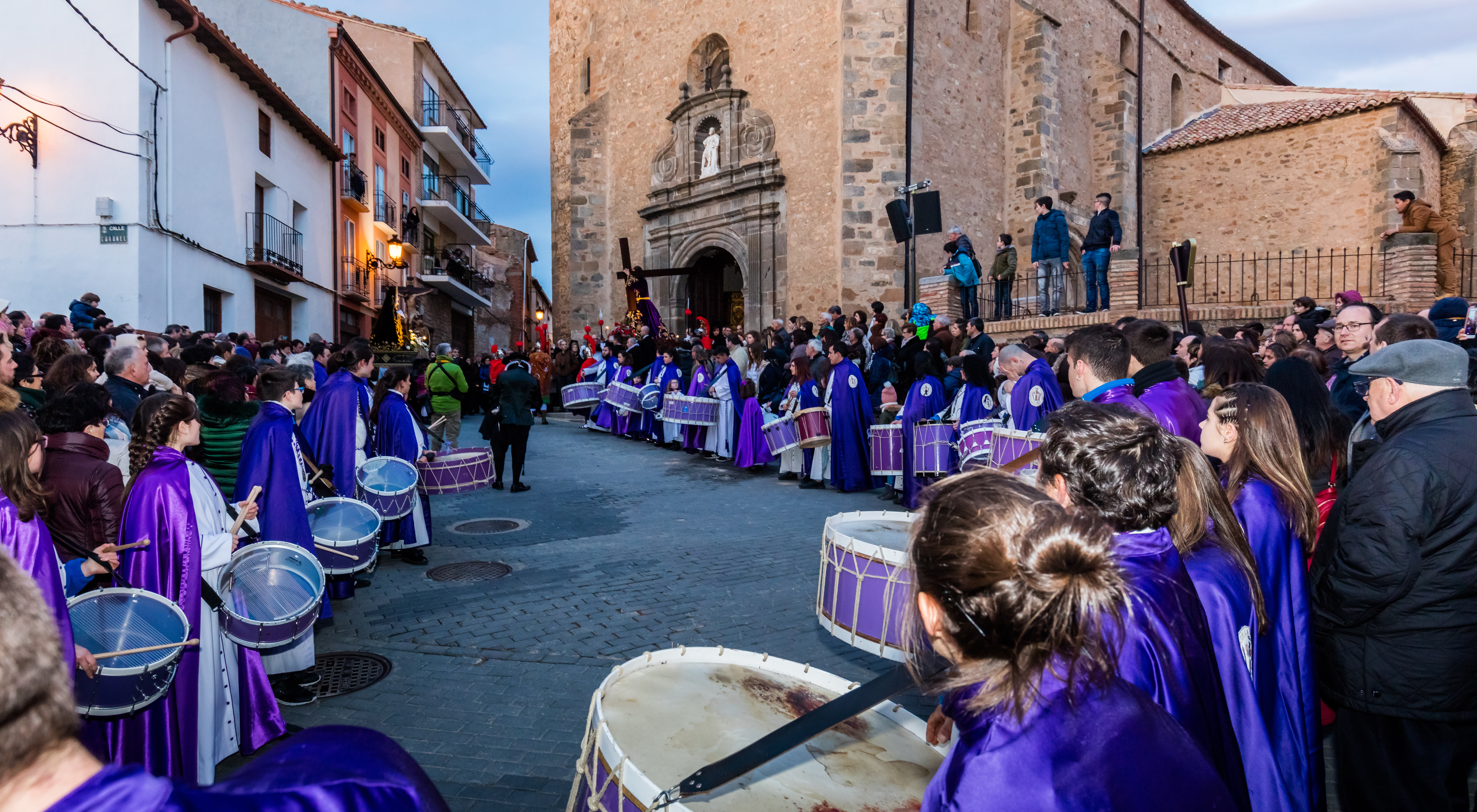 Lamentation of Christ Procession on Good Friday, Holy Week of Ágreda, Soria, Spain.